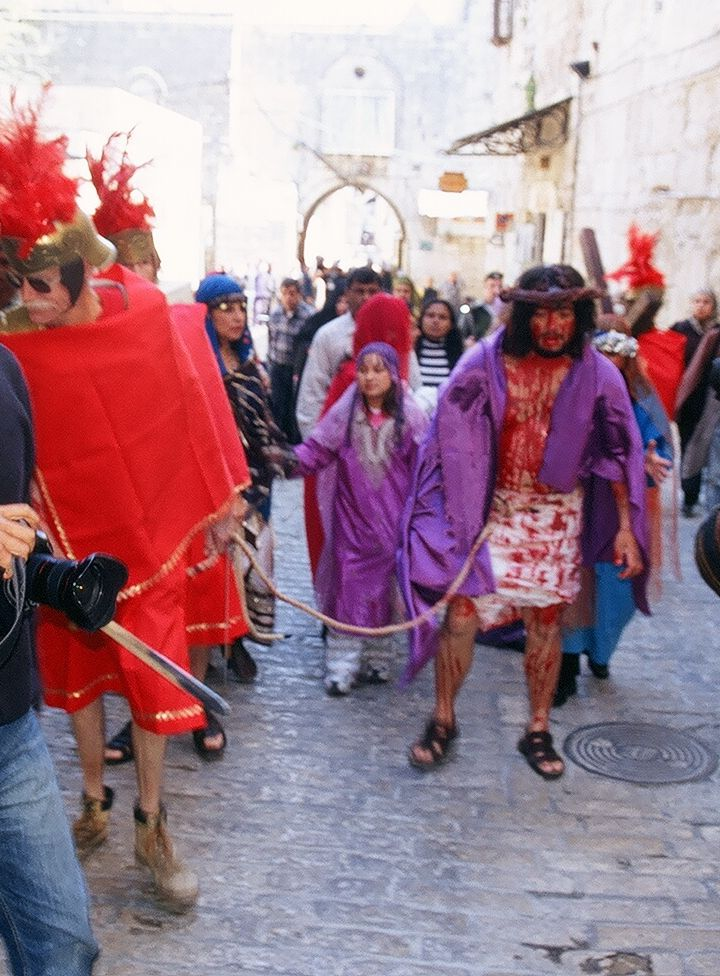 Old Jerusalem, Lions Gate road, "the walk of Jesus" on Good Friday Procession (25 March 2005) on Via Dolorosa Man depicting tortured Jesus - Israel fifth day photo number 010